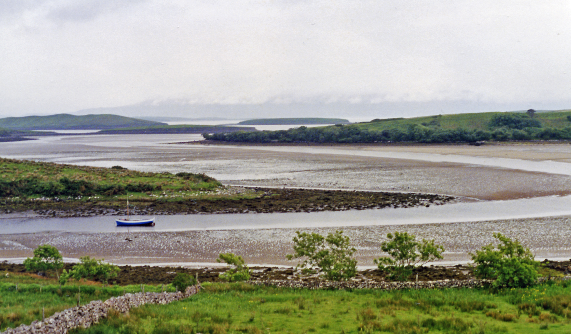 Southward from Newport - Mallaranny road near Rosturk, across islands at head of Clew Bay. Too many islands to enumerate. About nine miles away in the wet mist is Croagh Patrik Mountain (2,310 ft.), west of Westport. (See also L8896 : Clew Bay and Clare Island from T71 (N59) near Rosturk).